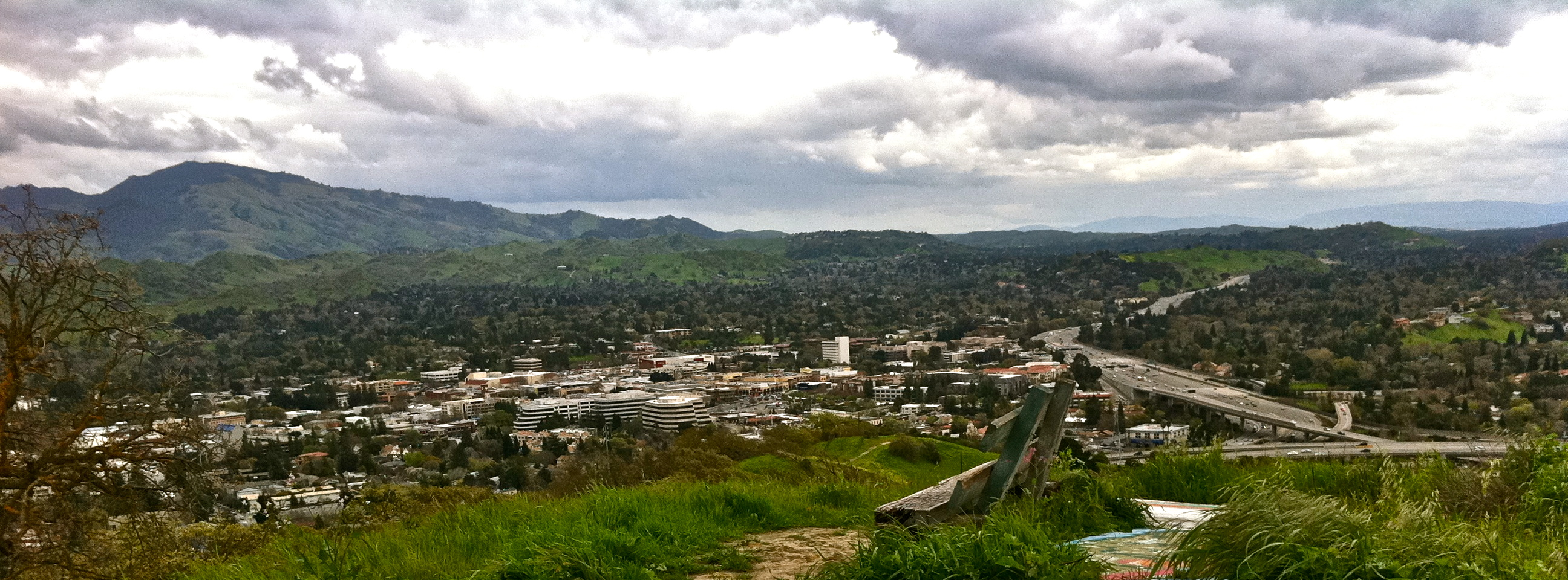 painted by Jon Griffin